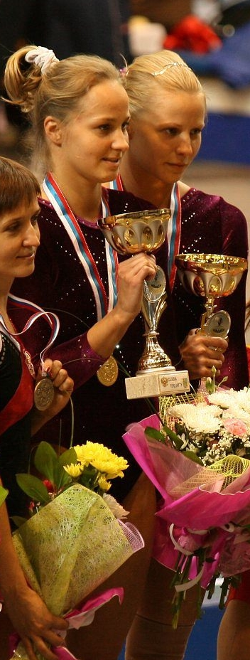 Tatyana Petrenya and Ekaterina Mironova (Belarus) (left to right)